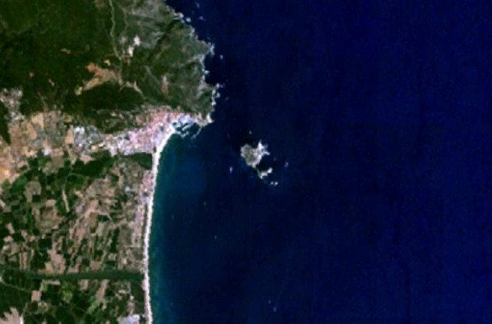 Medes Islands, Catalonia. Satellite view.